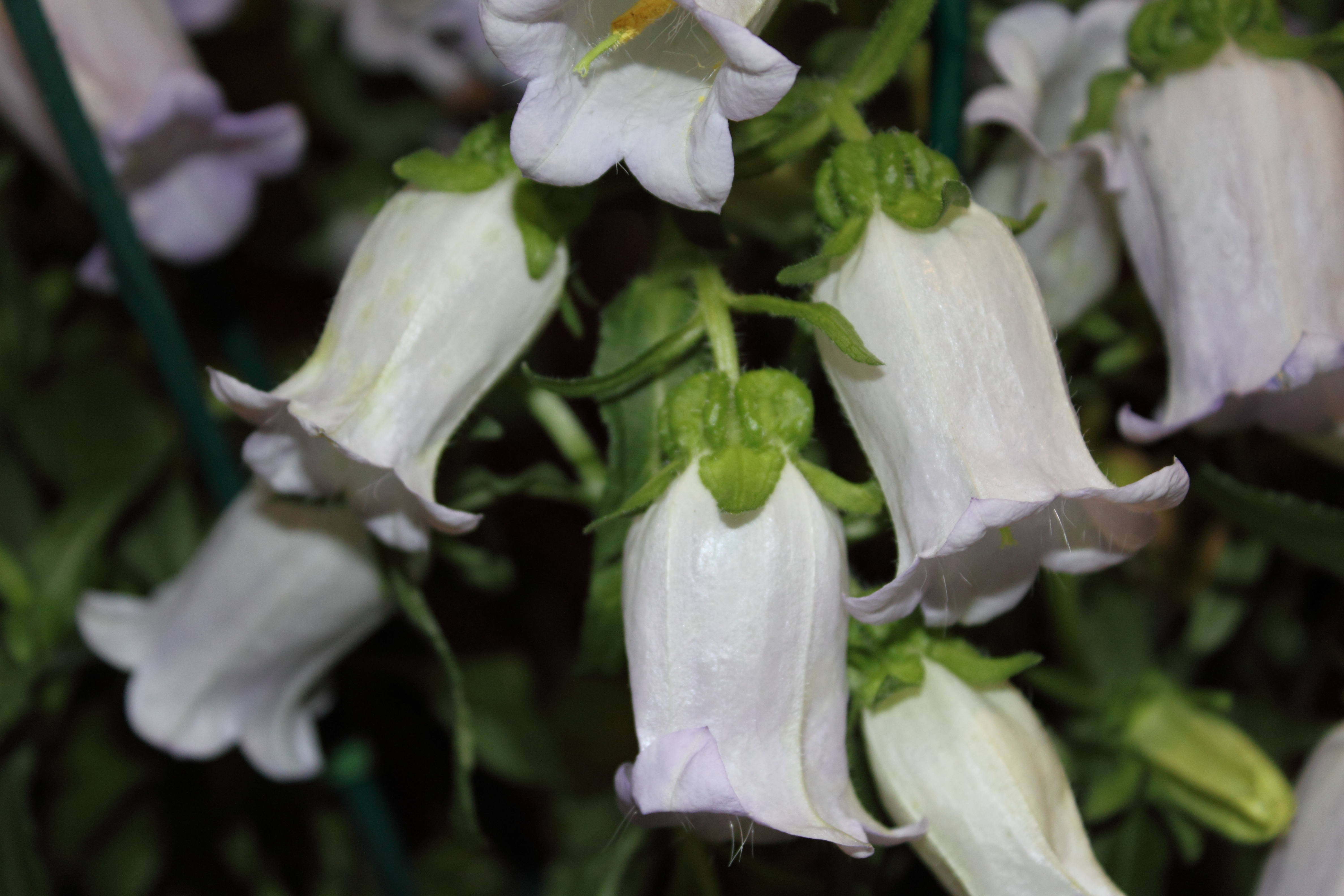 Campanula medium en cultivar 'Champion Lavender' taken at the 2011 New England Flower show in Boston, Massachusetts.